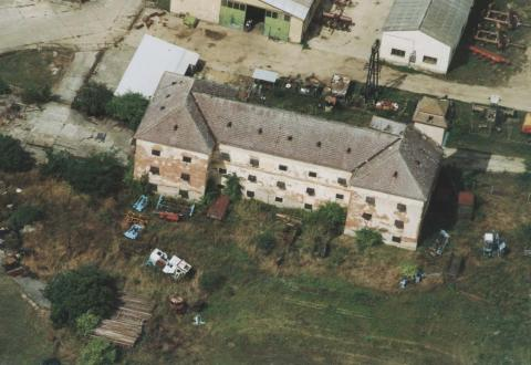 Kenyeri, Hungary, aerialphotography This is a photo of a monument in Hungary, Identifier: 8979